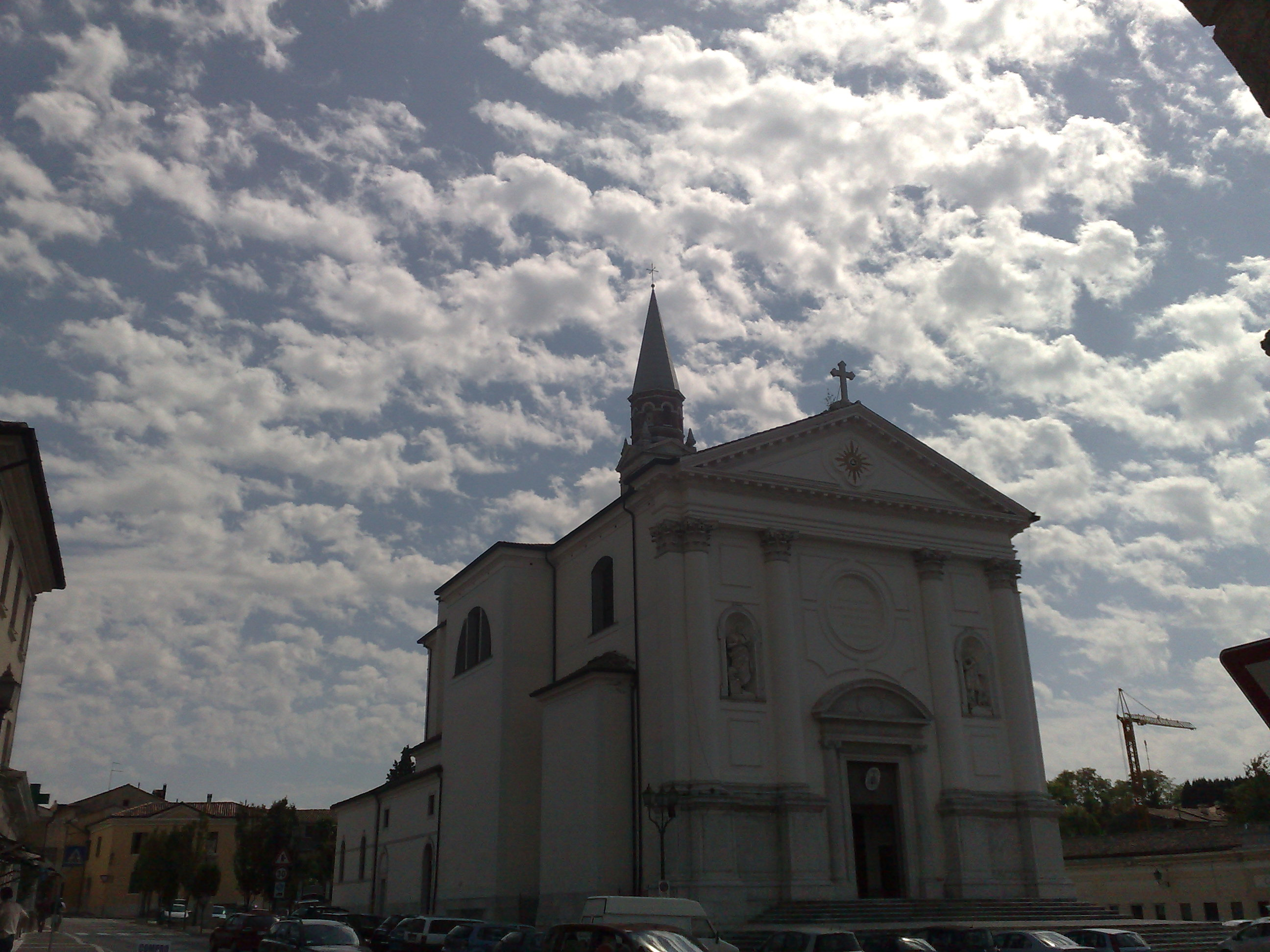 Church of Crespano del Grappa (Italy)